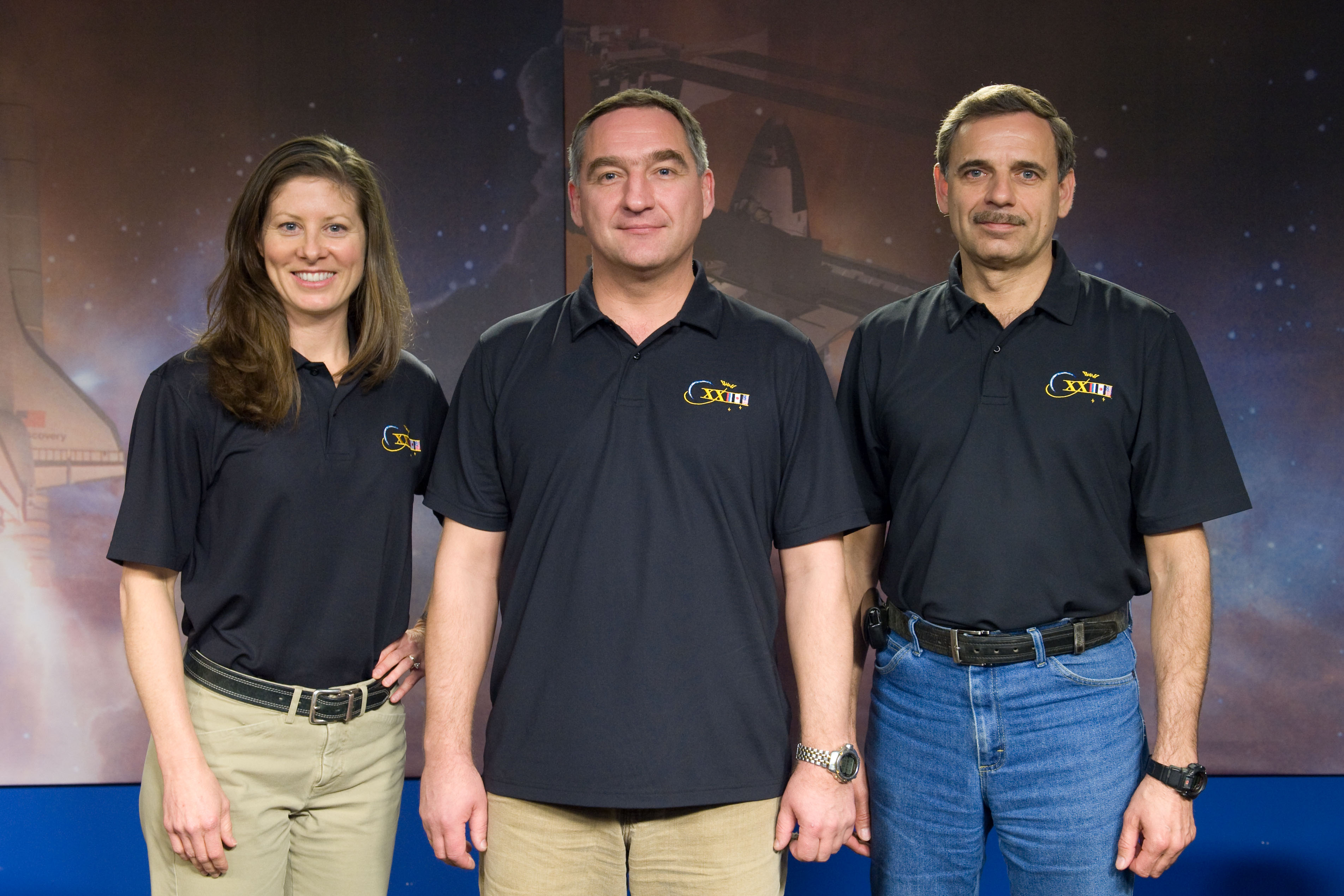 Russian cosmonauts Alexander Skvortsov (center), Expedition 23 flight engineer and Expedition 24 commander; and Mikhail Kornienko, Expedition 23/24 flight engineer; along with NASA astronaut Tracy Caldwell Dyson, Expedition 23/24 flight engineer, pose for a portrait following an Expedition 23/24 preflight press conference at NASA's Johnson Space Center. Skvortsov, Kornienko and Caldwell Dyson are scheduled to launch to the International Space Station aboard a Russian Soyuz spacecraft in April 2010.